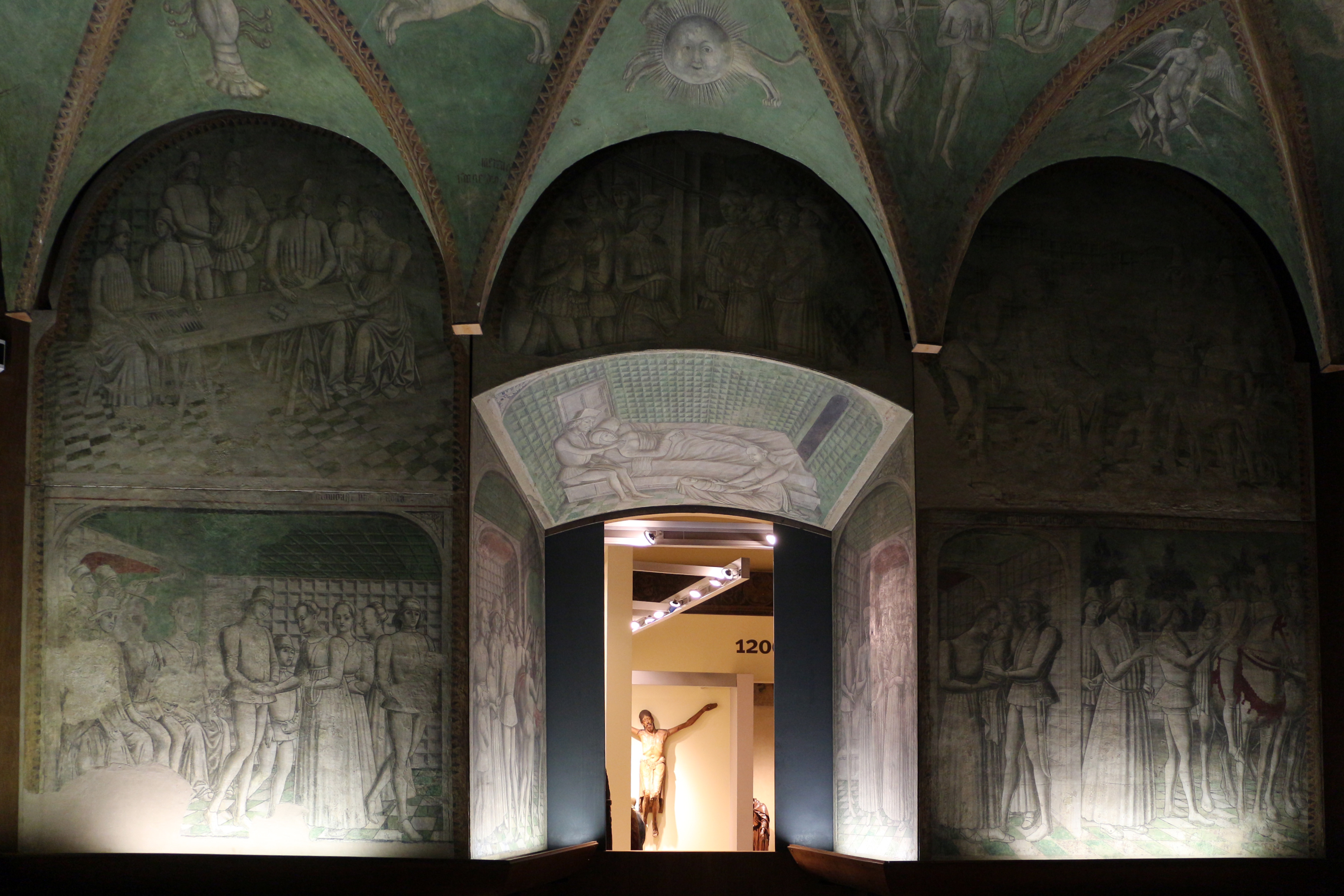 Raccolte d'arte applicate del Castello Sforzesco di Milano